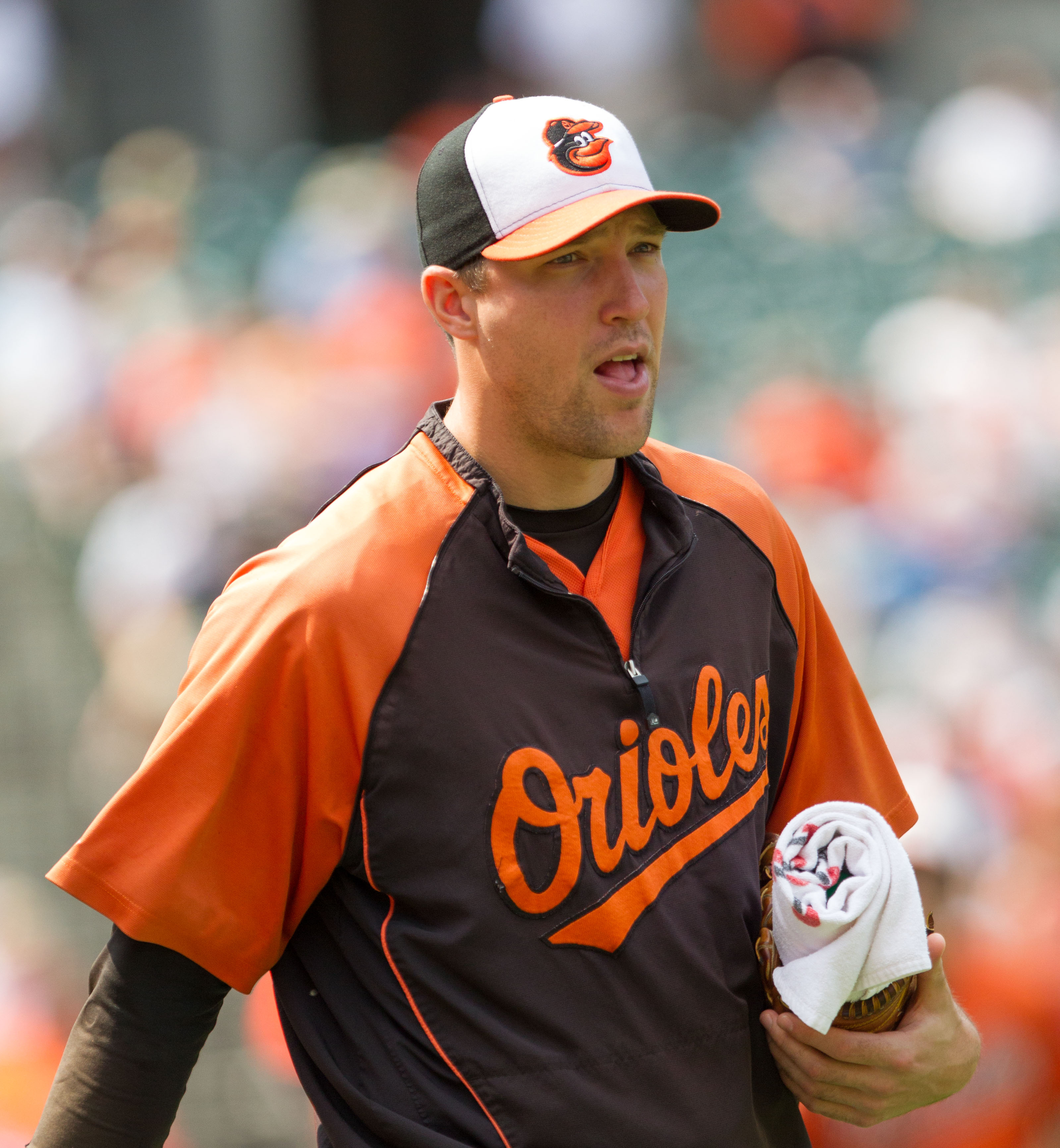 Chicago White Sox at Baltimore Orioles August 30, 2012